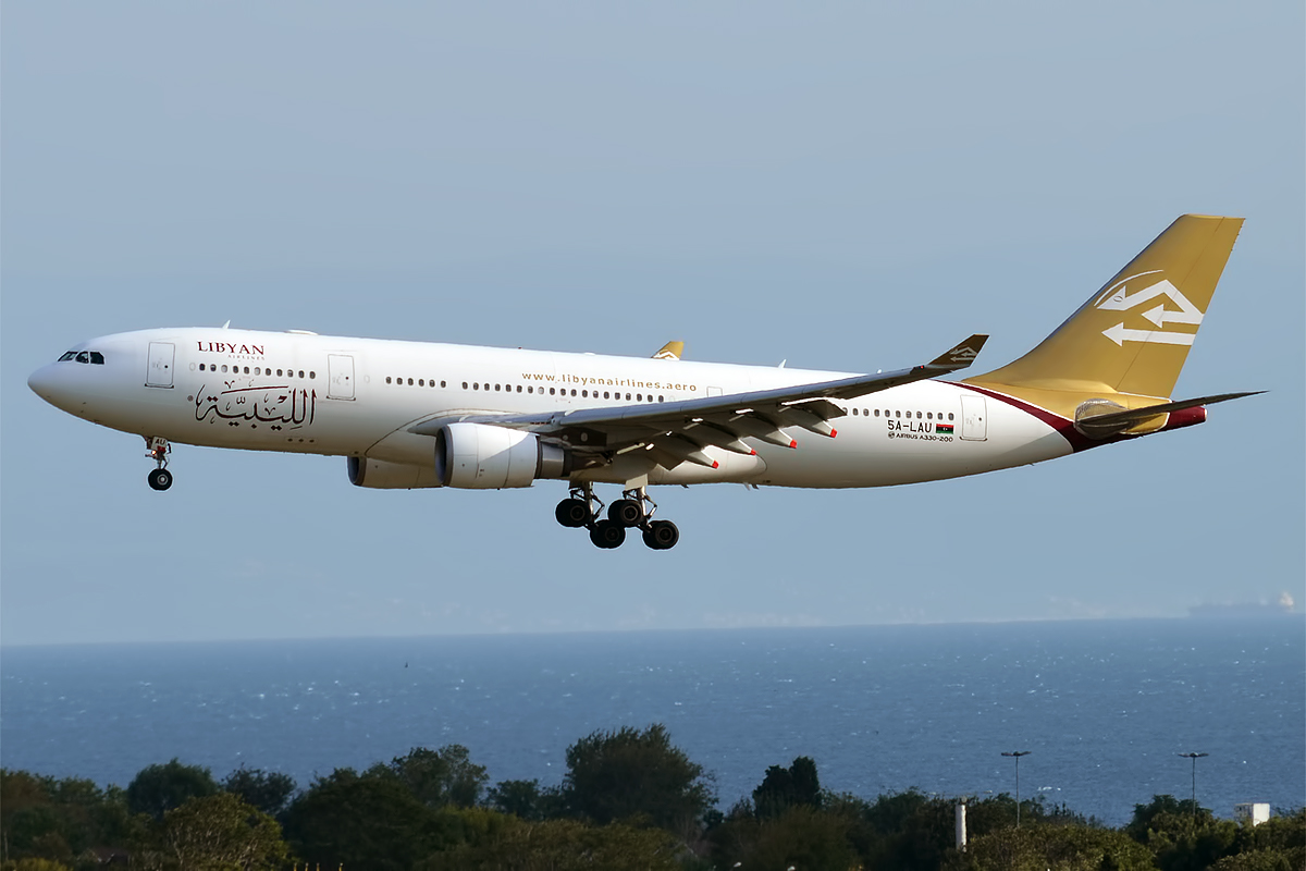 Libyan Airlines, 5A-LAU, Airbus A330-202